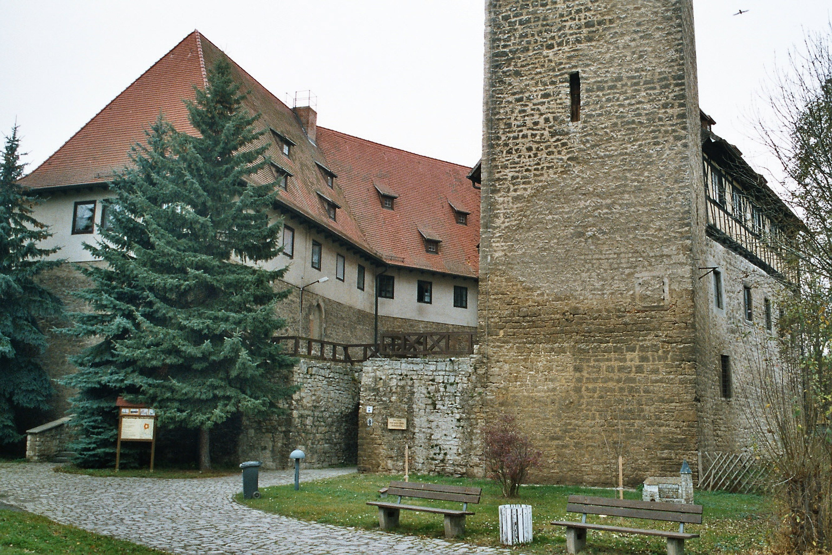 Niederroßla, the moated castle